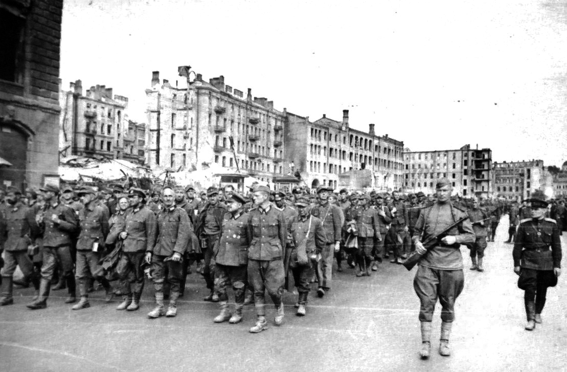 German POW soldiers, under Soviet capture, march in Kiev strests.